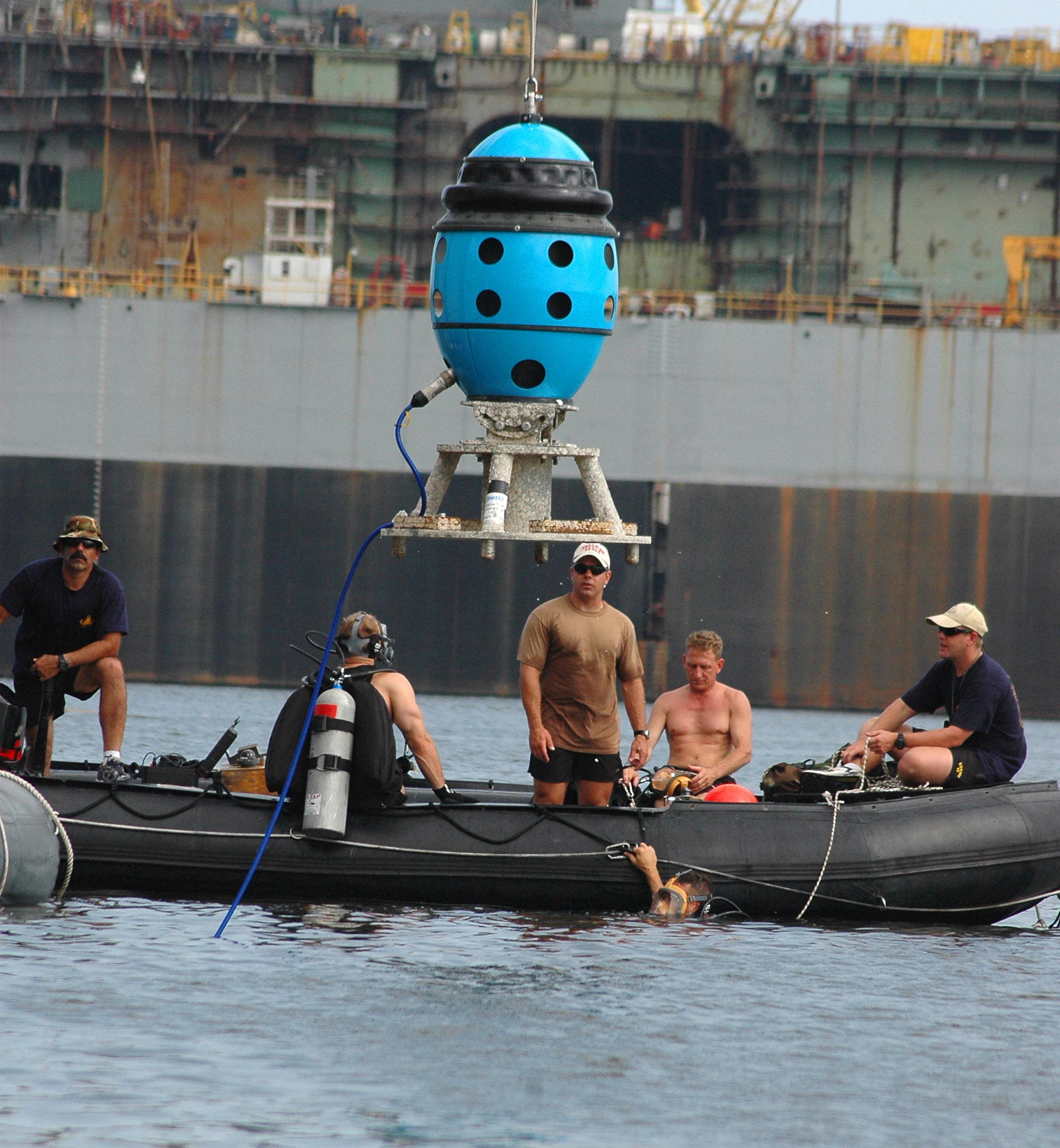 Pascagoula, Miss. (Aug 15, 2005) - Sailors assigned to Explosive Ordnance Disposal Mobile Unit One Two (EODMU-12) Det 10 prepare to guide the Cerberus Swimmer Detection System into the water at Naval Station Pascagoula during the Gulf Coast Maritime Domain Awareness Initiative 2005. The initiative is being held at the Port of Pascagoula in cooperation with the U.S. Navy and U.S. Coast Guard along with federal, state and local agencies working together to enhance homeland security. U.S. Navy Photo by Photographer's Mate 1st Class Michael Moriatis (RELEASED)